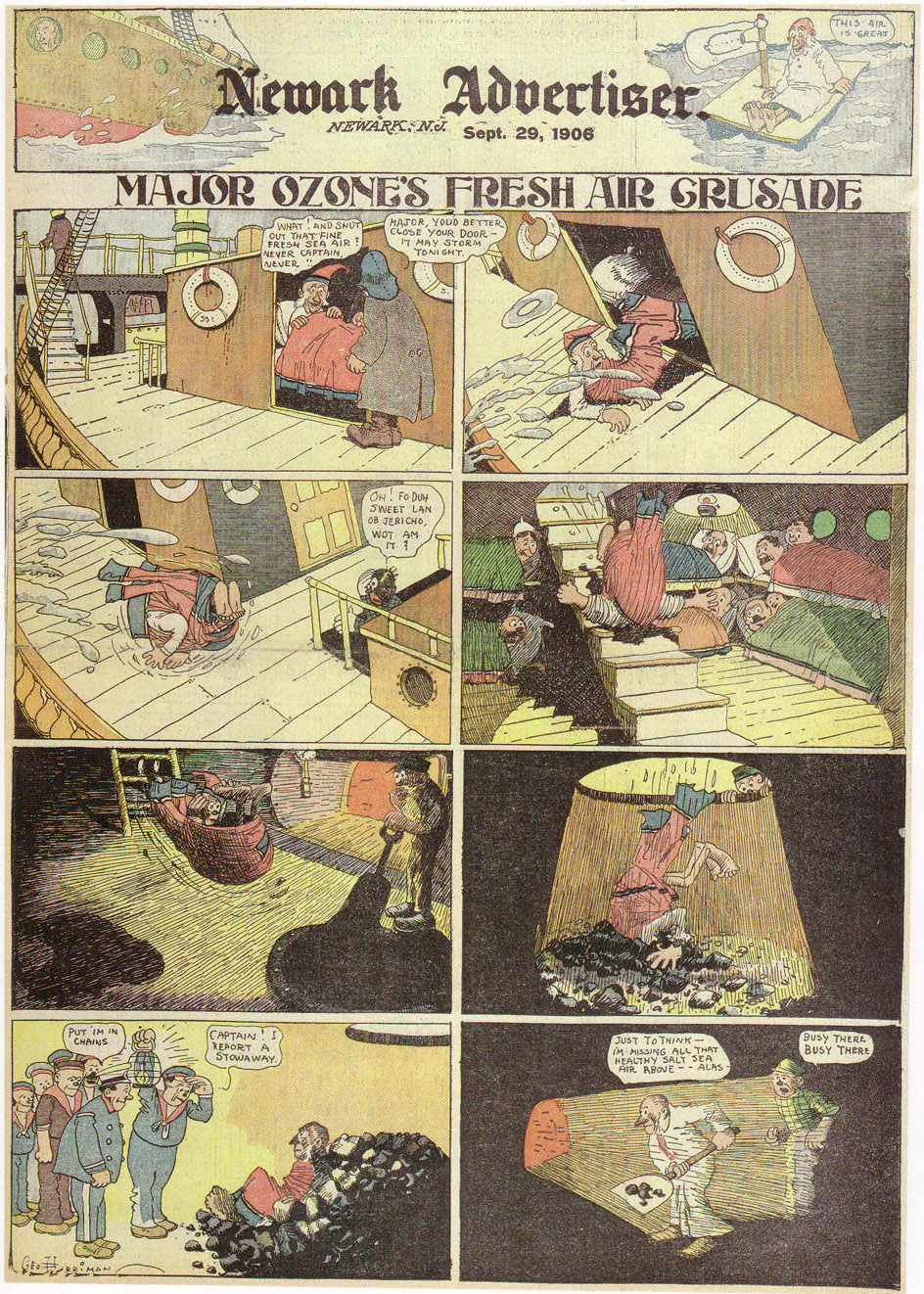 Major Ozone's Fresh Air Crusade comic strip by George Herriman for September 29, 1906